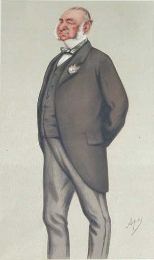 Caricature of Henry Villebois. Caption read "The Squire".